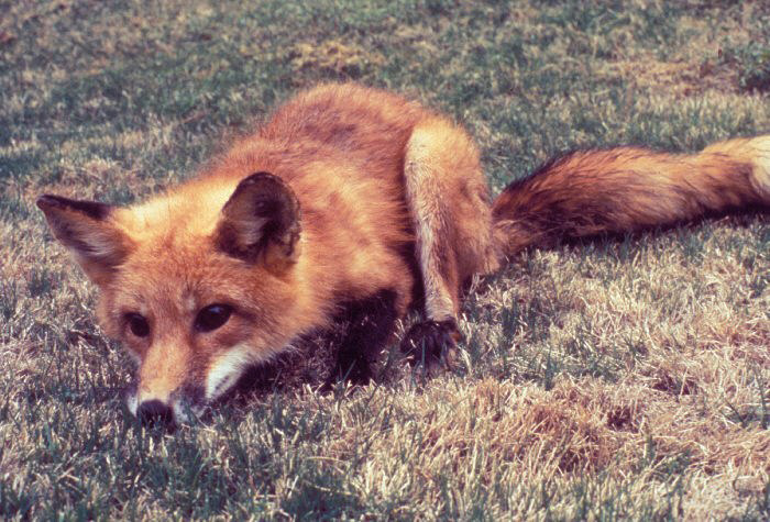 This image depicts a red fox, Vulpes vulpes, an animal know to be a vector in the transmission of rabies to humans and other animals